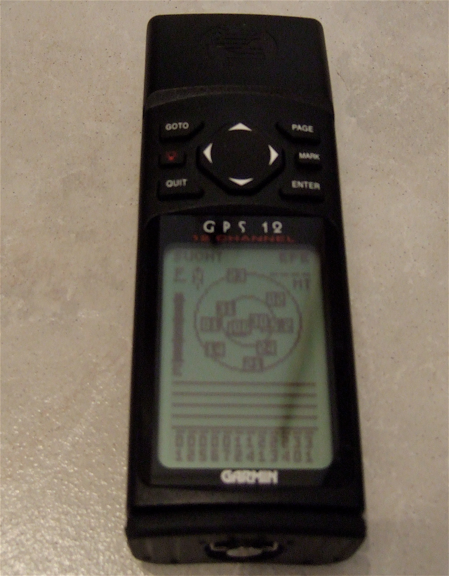 Mobiles Navigationssystem von Garmin